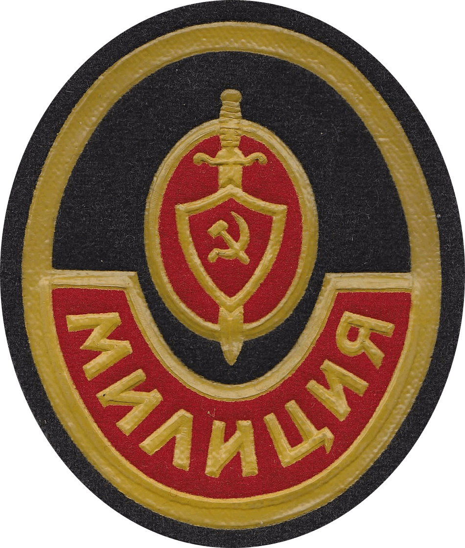 Shoulder sleeve insignia of OMON (USSR)